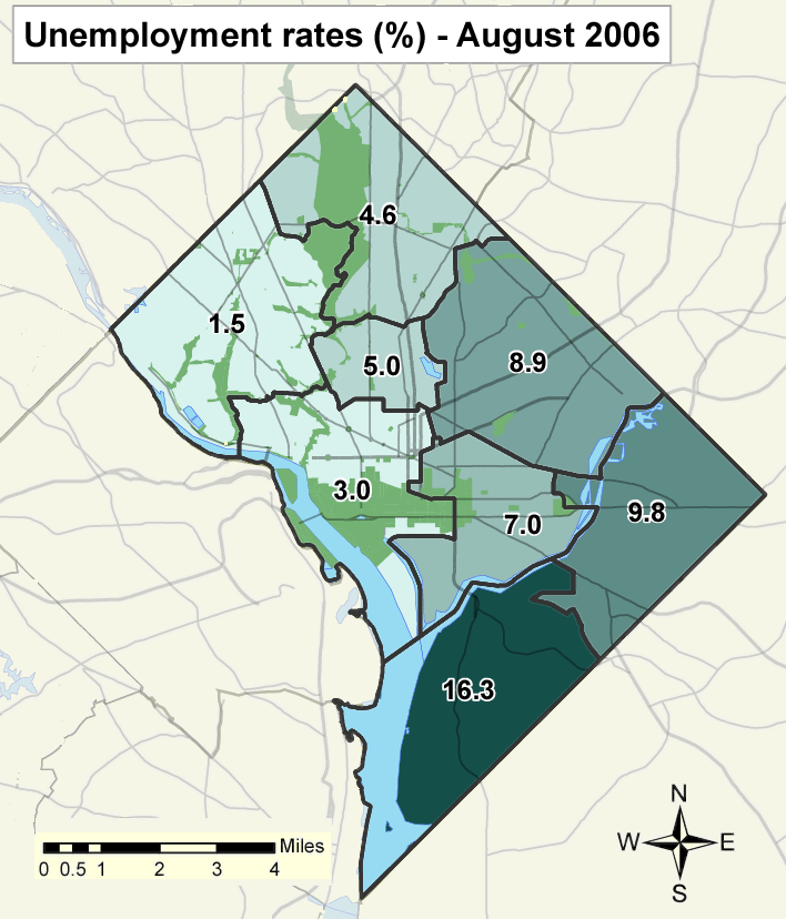 Unemployment in Washington, D.C. in August 2006. National unemployment rate as of August 2006 was 4% and 6.1% for the District Columbia as a whole.